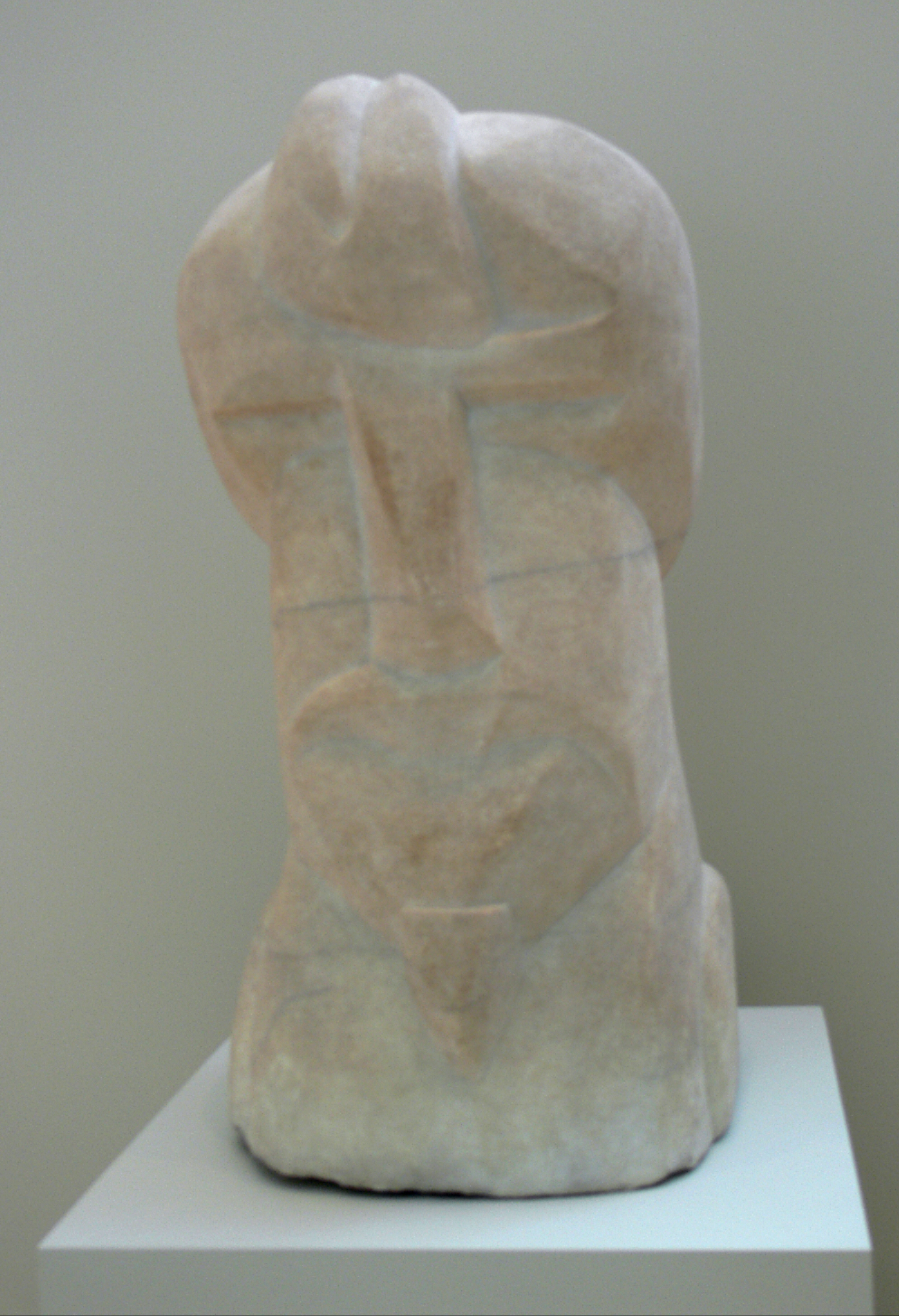 Henri Gaudier-Brzeska: Hieratic Head of Ezra Pound, marble, 1914; Nasher Sculpture Center, Dallas, Texas (Raymond and Patsy Nasher Collection, acquired in 1988)